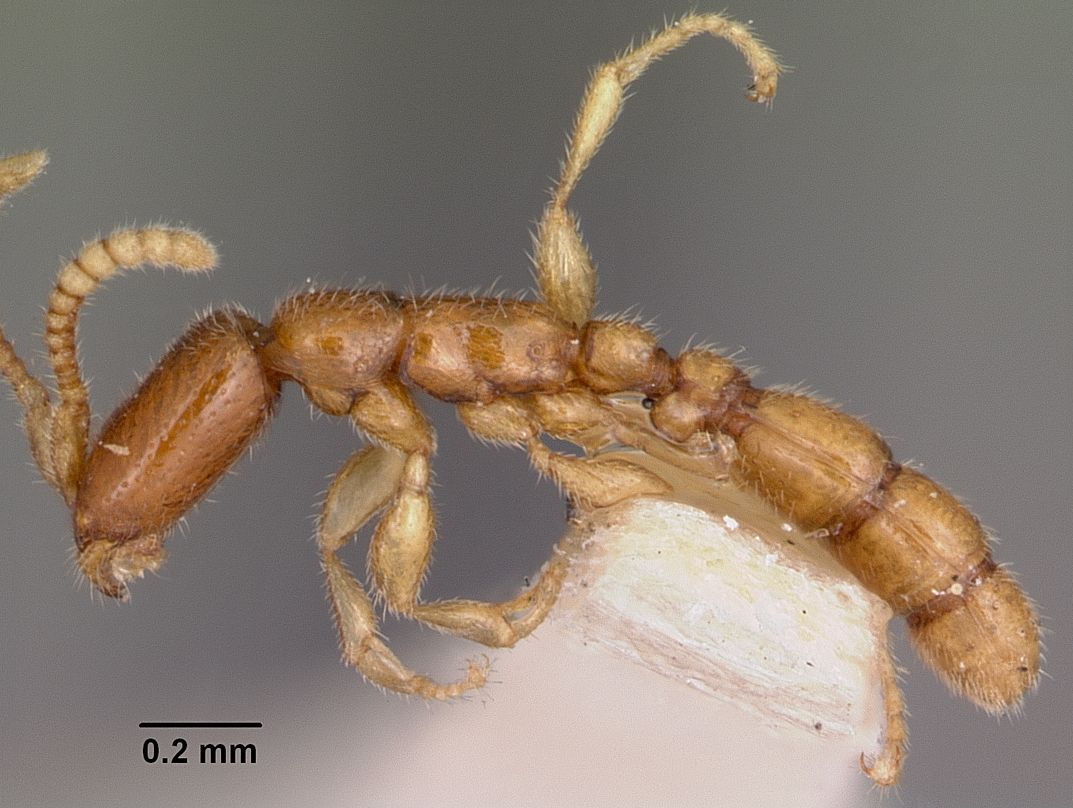 Profile view of ant Leptanilloides biconstricta specimen casent0104676.